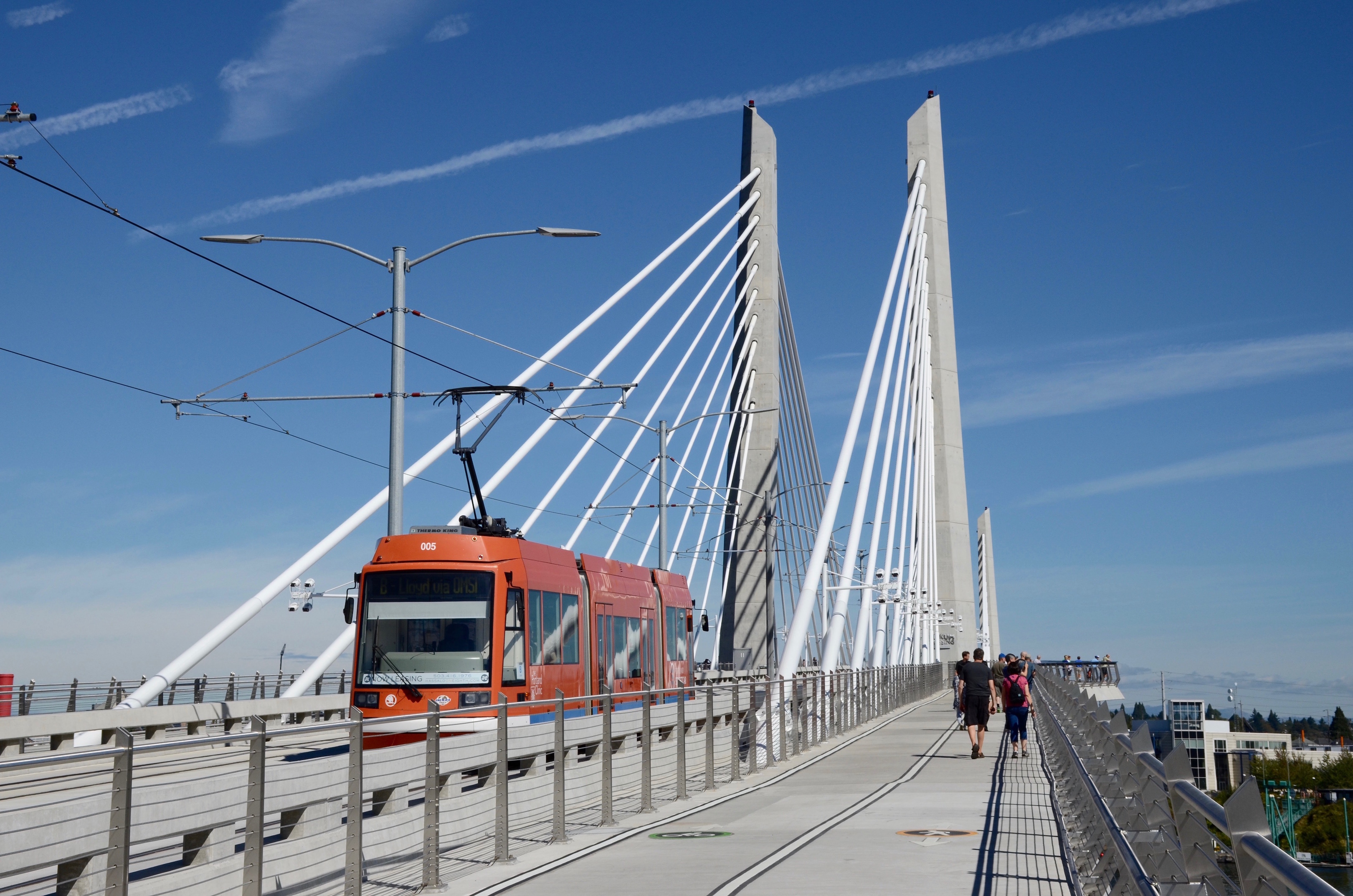 The Tilikum Crossing (in Portland, Oregon) from the south sidewalk, near the bridge's west end. Car 005, a 2001 Skoda 10T, is eastbound (going away from the camera) on the Portland Streetcar system's counterclockwise B Loop service.